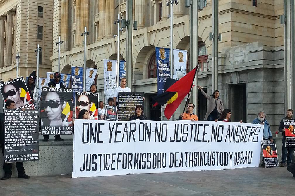 A protest held to commemorate the anniversary of Julieka Dhu's death in police custody